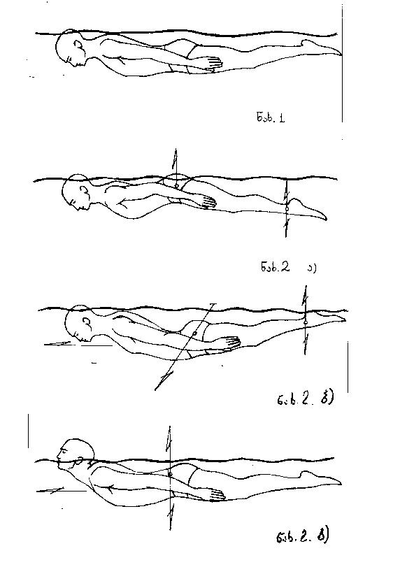 Georgian style